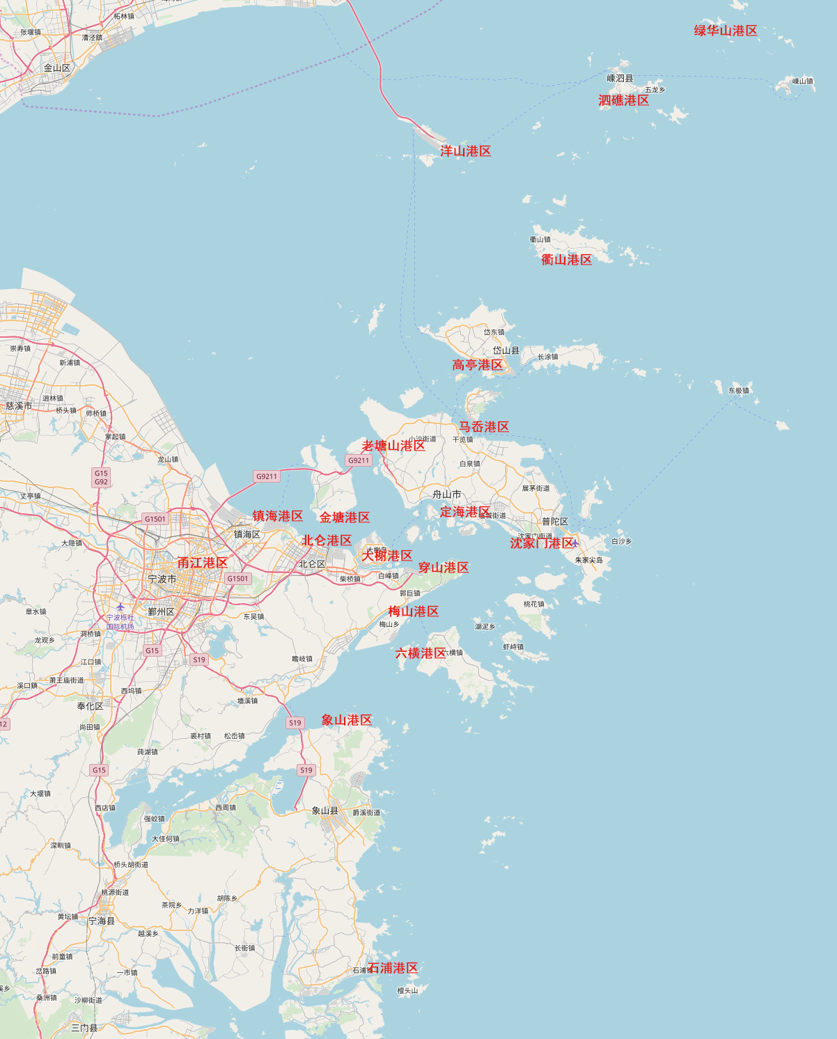 Port zones of Ningbo - Zhoushan Port